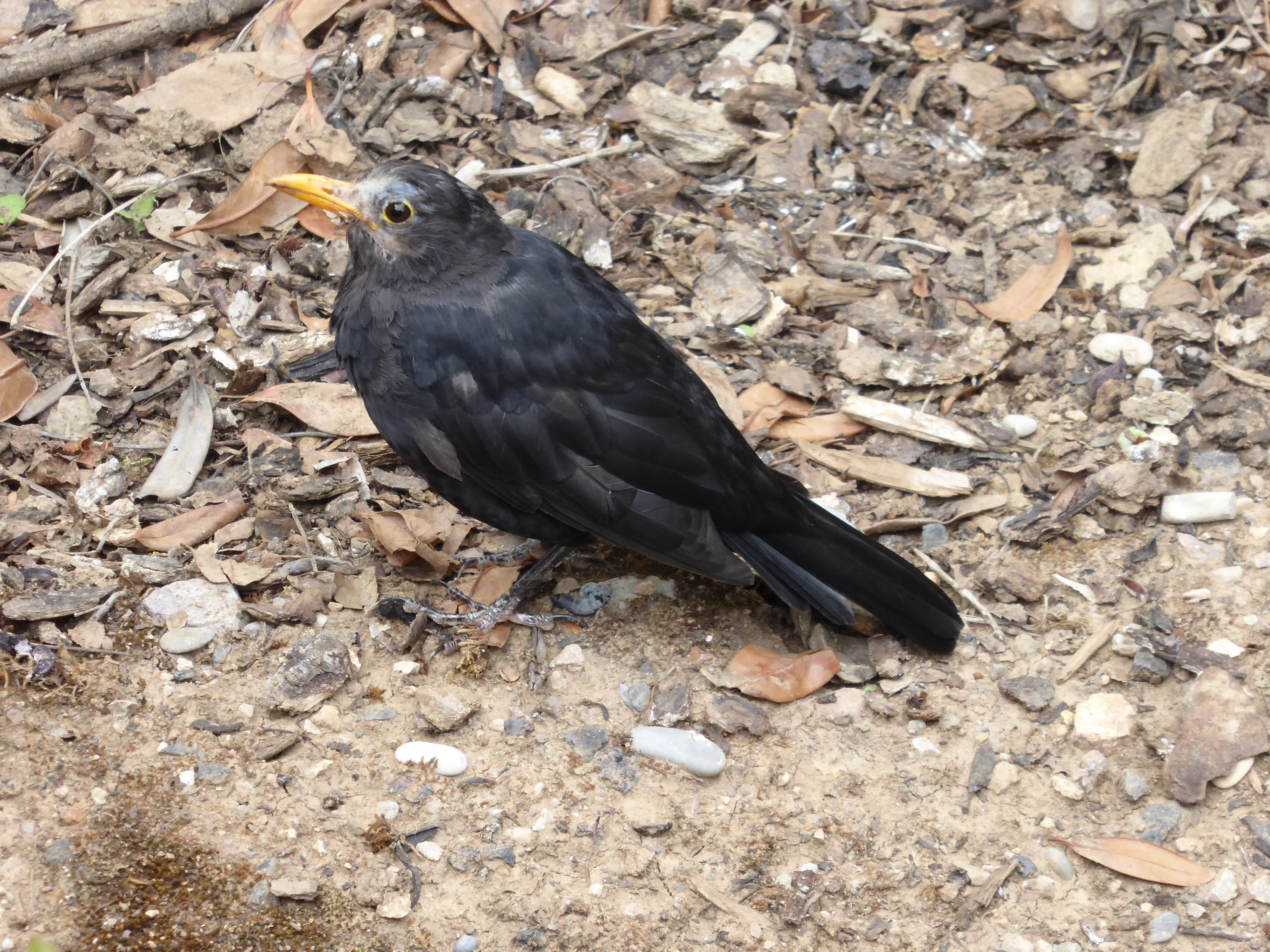 Male blackbird with symptoms from Usutu-virus infection